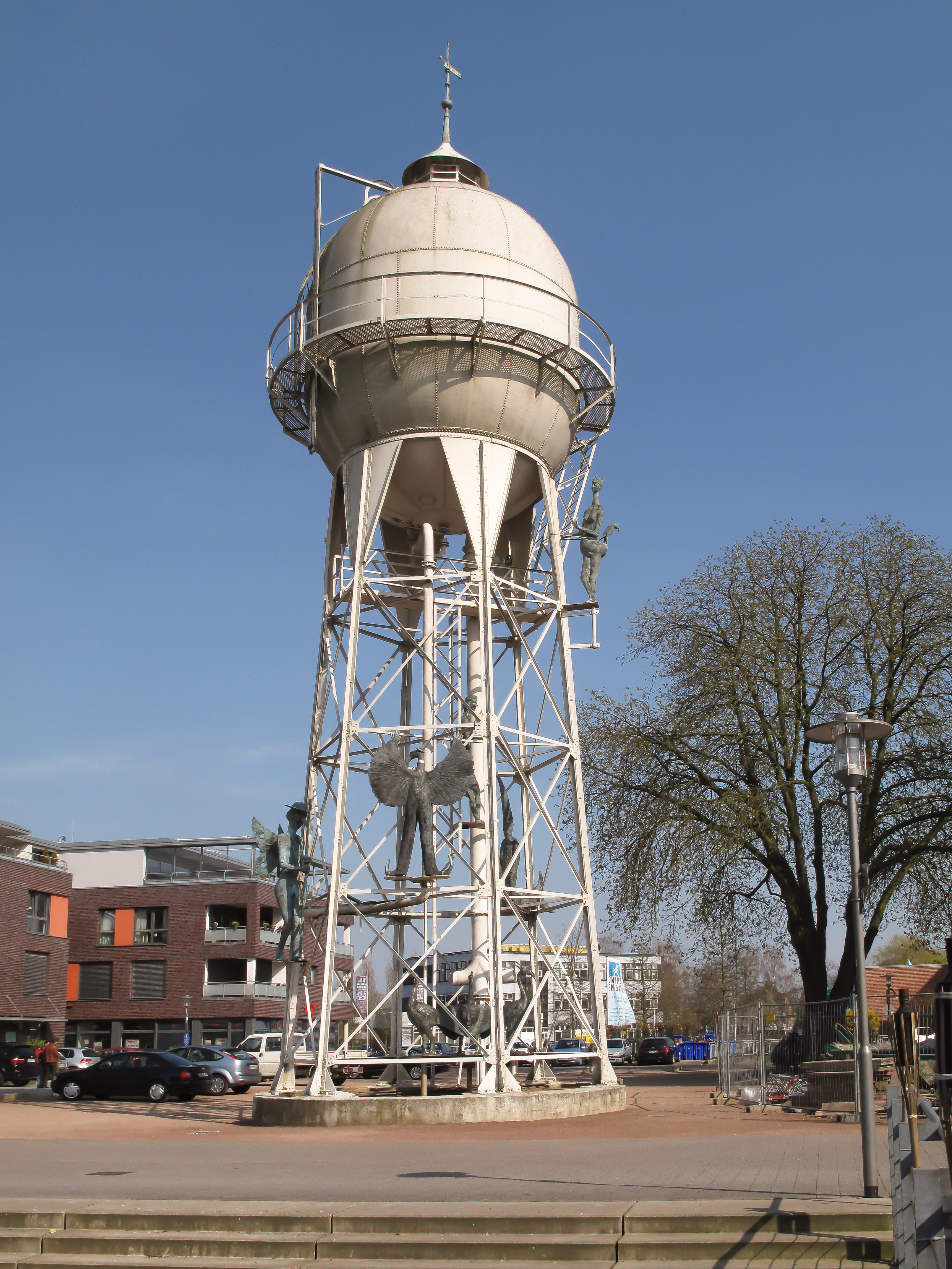 Gronau, watertower: der Altmetall Wasserturm